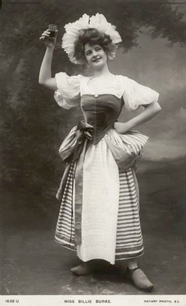 Raising a glass, Billie Burke poses as the servant girl in the operetta "The Dutchess of Dantzic" which premiered in October 1903 at the Lyric Theatre in London, England.